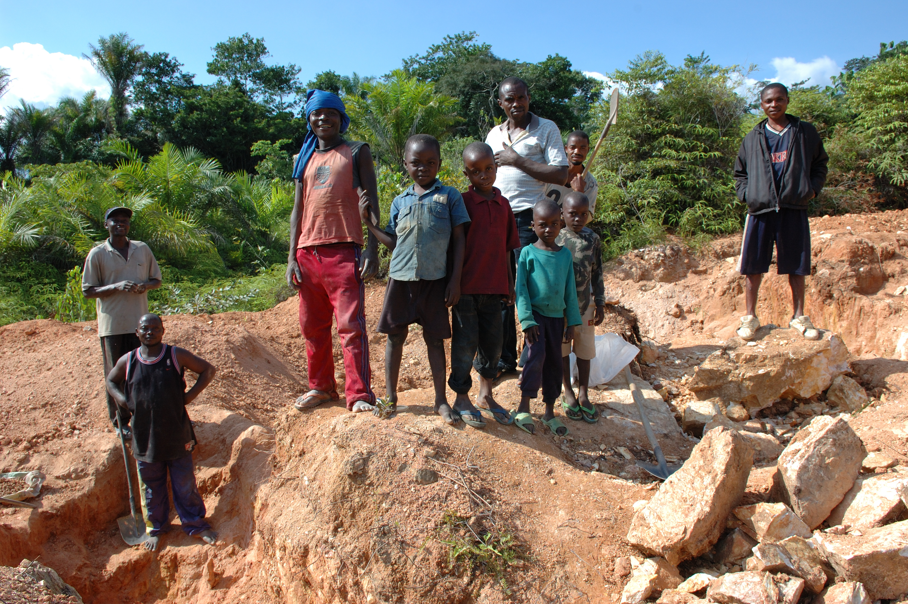 The mine was a challenge to my preconceptions. In Kailo they mine wolframite and casserite. Before the war the mines were operated by a state run company, the defunct infrastructure can be glimpsed under bushes and vines. The company still has a smart office in the centre of the village, but instead of mining they take a percentage of the proceeds of the artisan miners and the traders. Most of the workers are from the area, although I met some from the province of Kasai. Children were working with their parents, helping with panning for the ore, carrying and selling goods to the workers. The mine is made up of widely dispersed open pits. Most pits were 4 to 10 metres deep with the occasional 25 metre pit. Next to the pits were the temporary huts of the workers. There did not appear to be the squalor or disease that we find in gold mines. Although there were ëmaison de toleranceí as they are politely called here with the associated risks of sexual diseases, AIDS and child prostitution. As we left the mine we crossed two four wheel drive cars carrying men from a British company interested in investing in the mine.